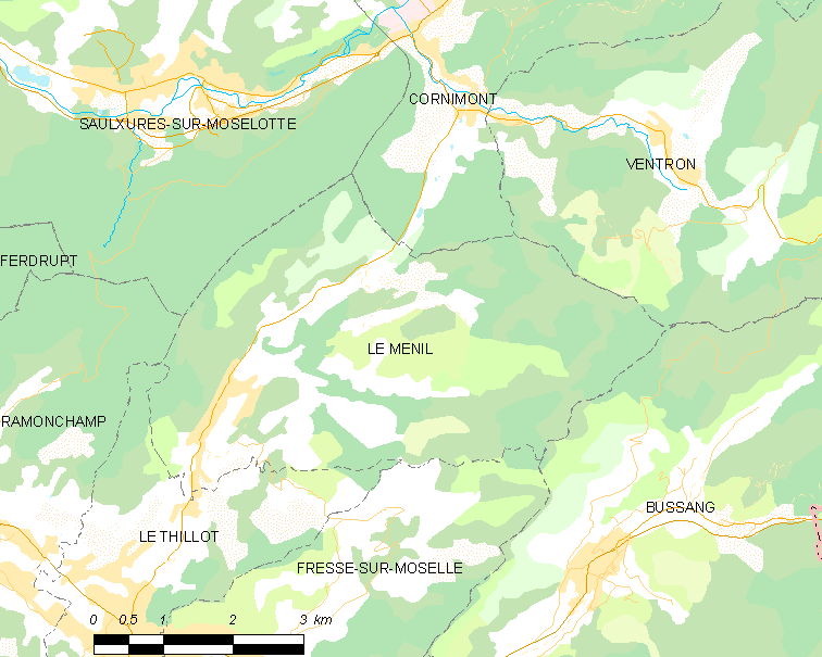 Map of French municipality Le Ménil